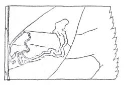 Stigmella pomivorella (leaf mine)